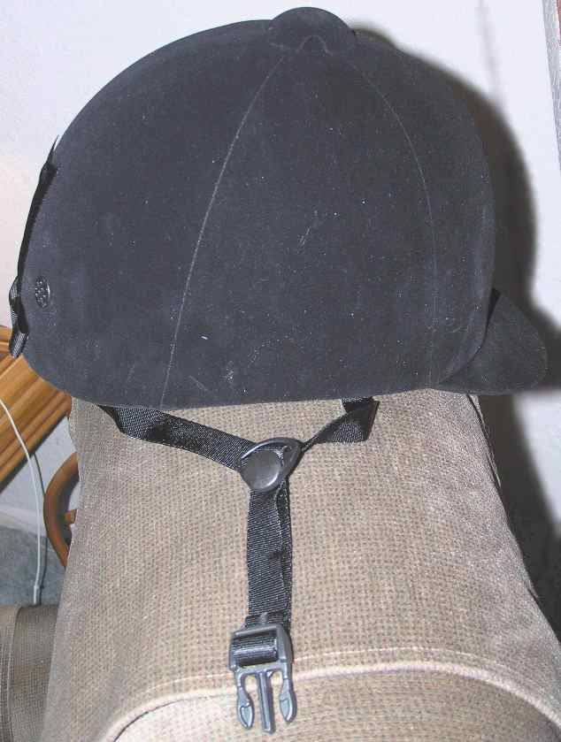 ASTM/SEI Equestrian safety helmet covered in velveteen for show purposes, older style, but show legal